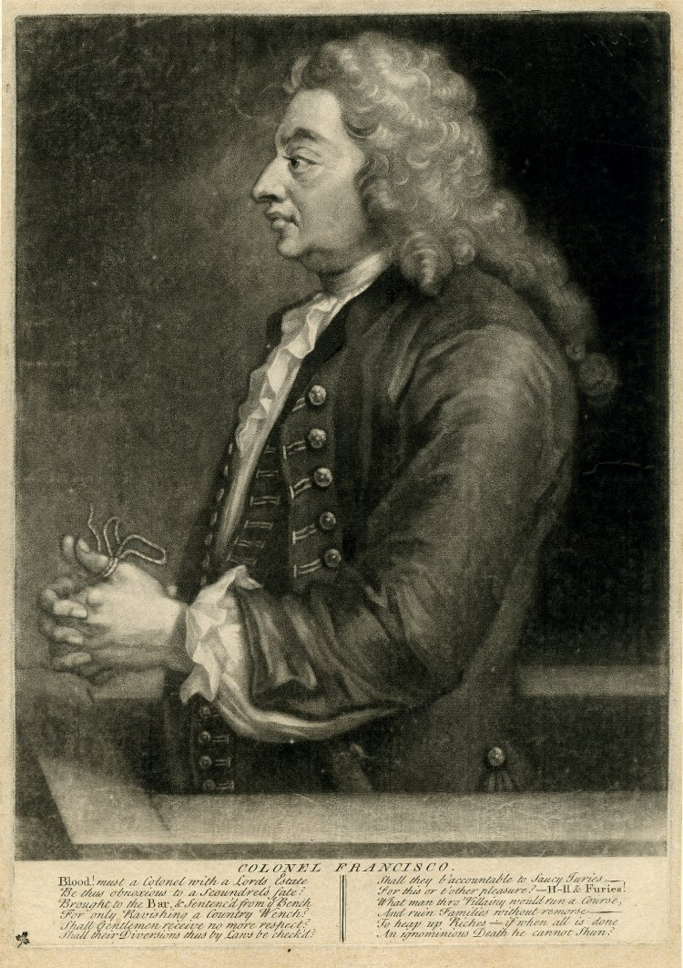 Portrait of 'Colonel' Francis Charteris, notorious rake. Courtesy of the British Museum, London.